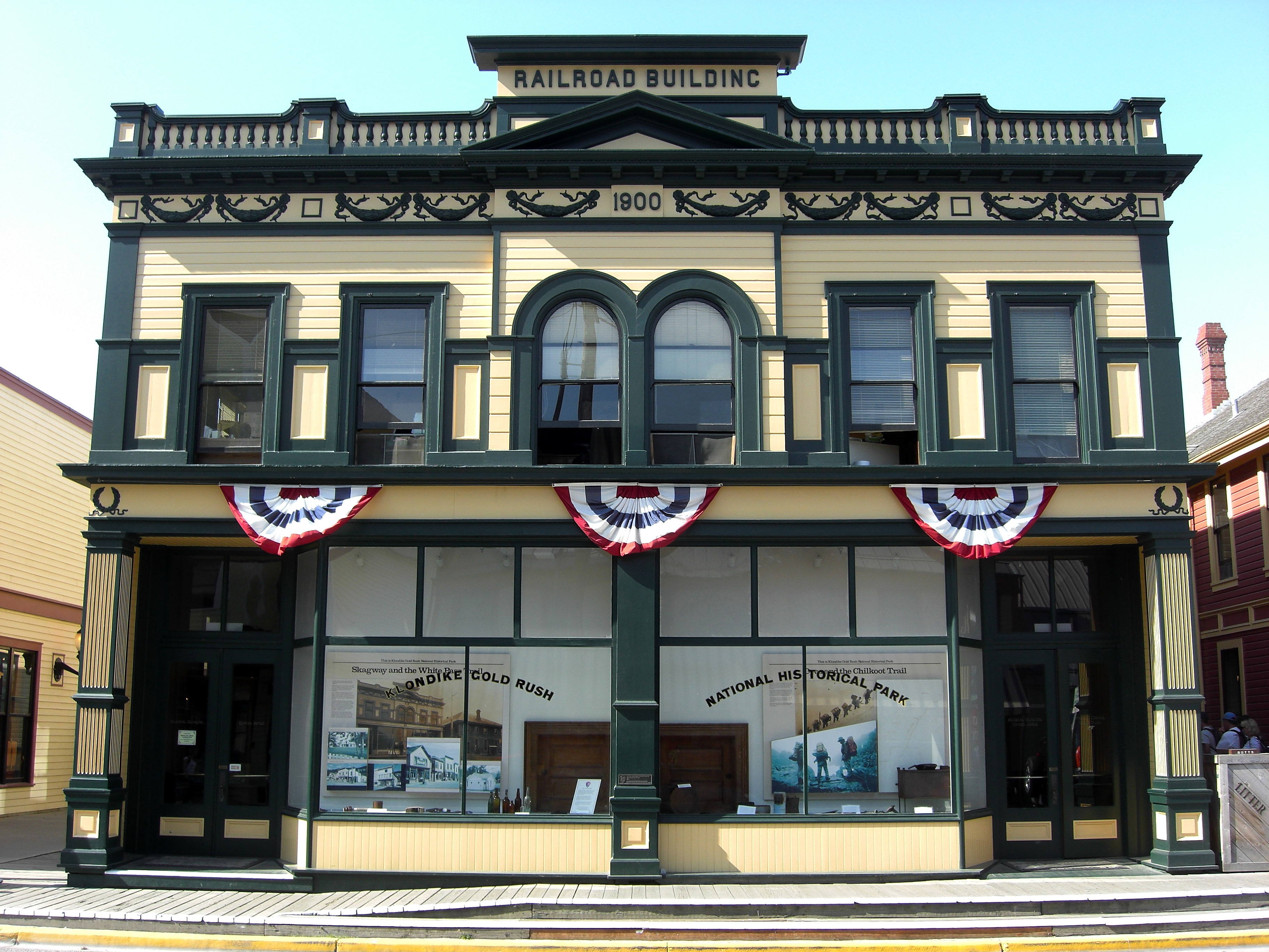 Klondike Gold Rush National Historical Park in Skagway